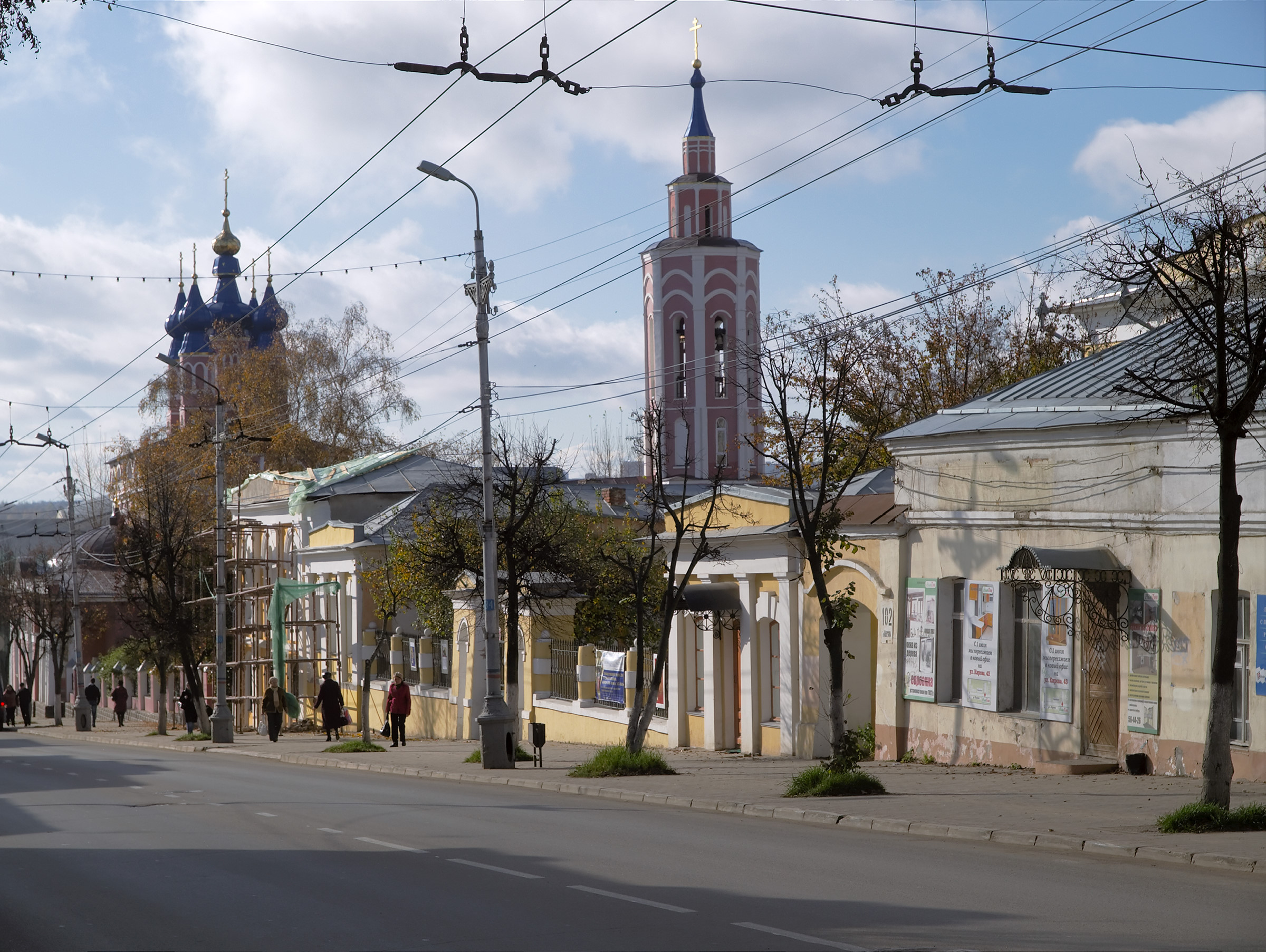 Bilibin-Chistokletov House in Kaluga. Present-day Kaluga Museum of Art. Street wings and gates.